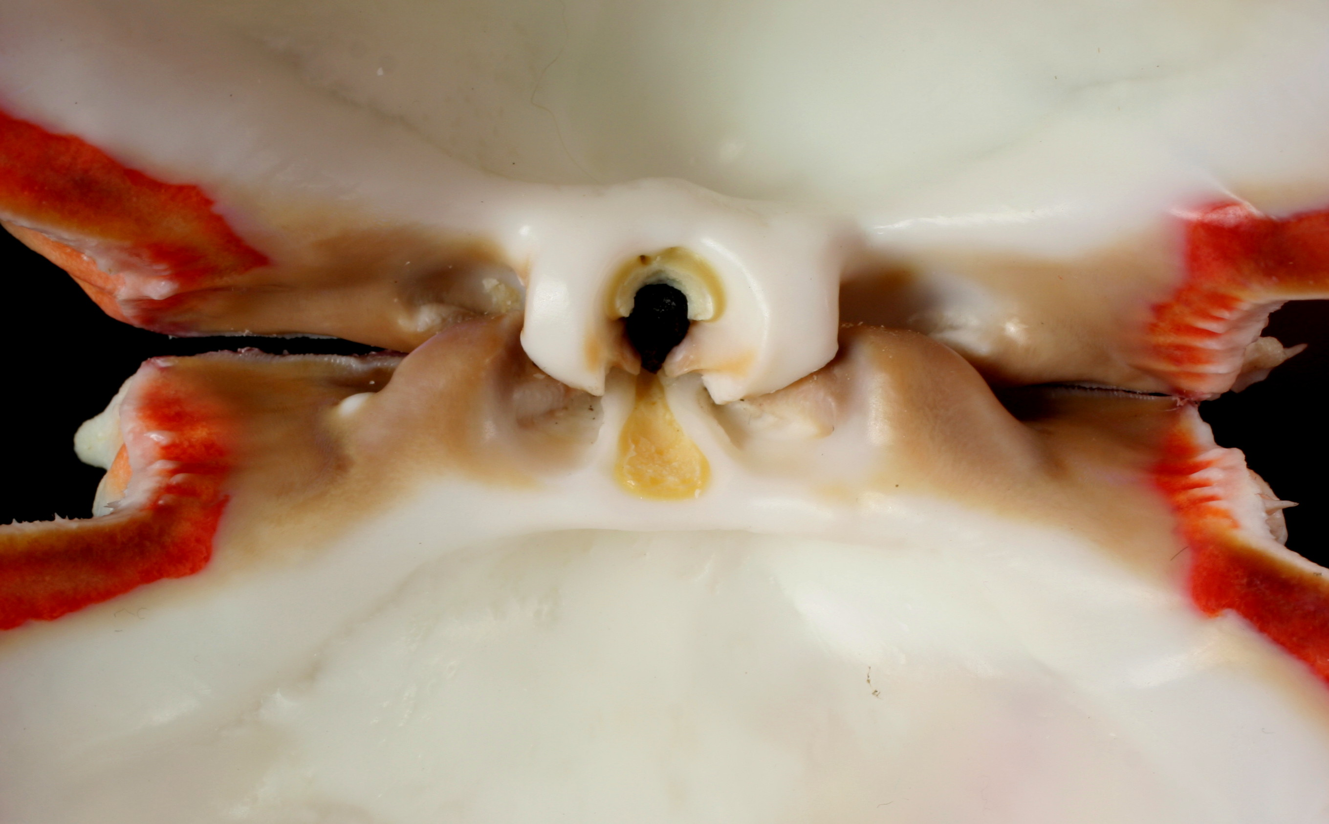 Spondylidae close up isodont hinge